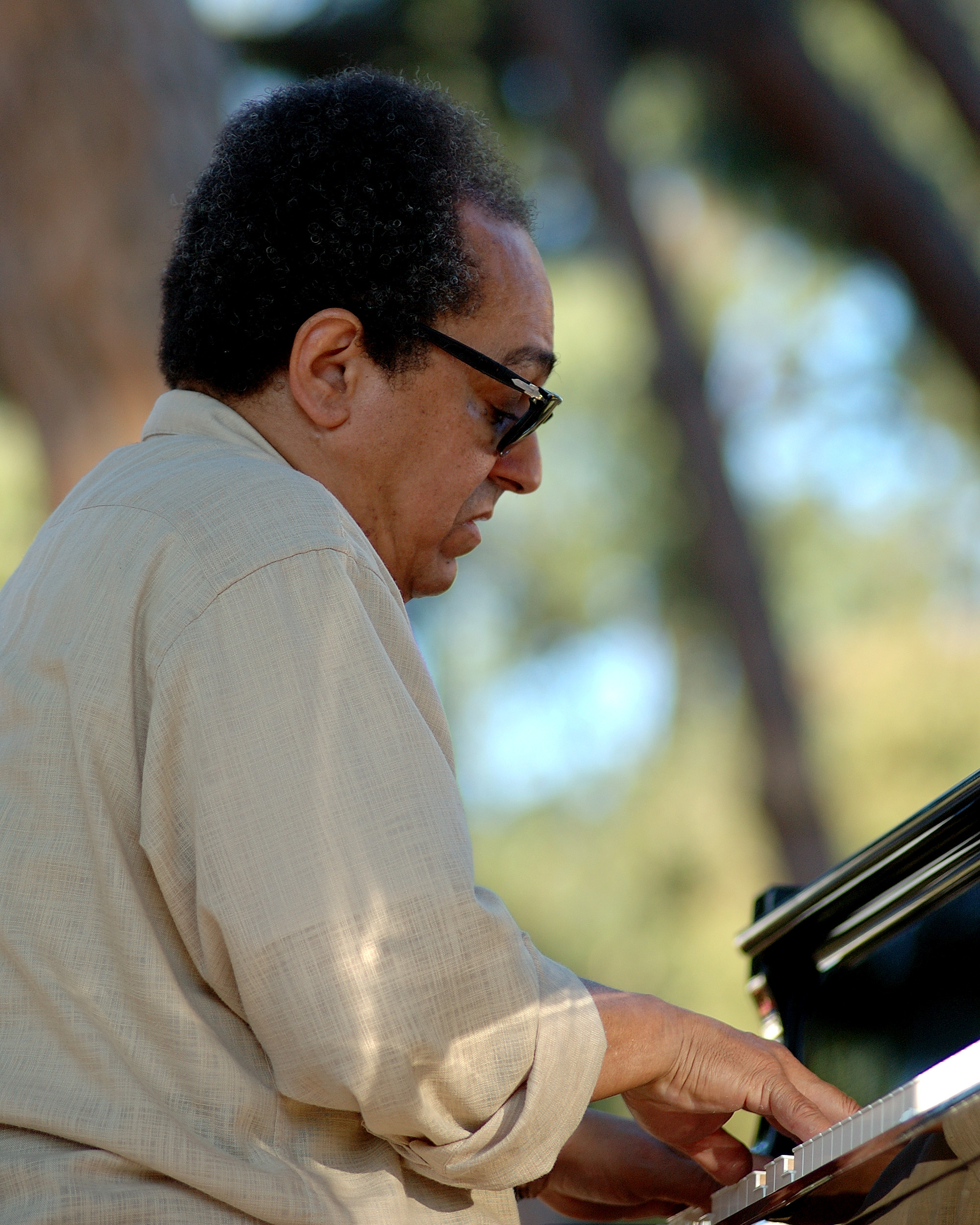 Outdoor portrait of Alain Jean-Marie, french jazz pianist, taken on 2005-07-20. He was guest of the French Riviera Middle Band during the Jazz à Juan « Off » Festival (French Riviera).